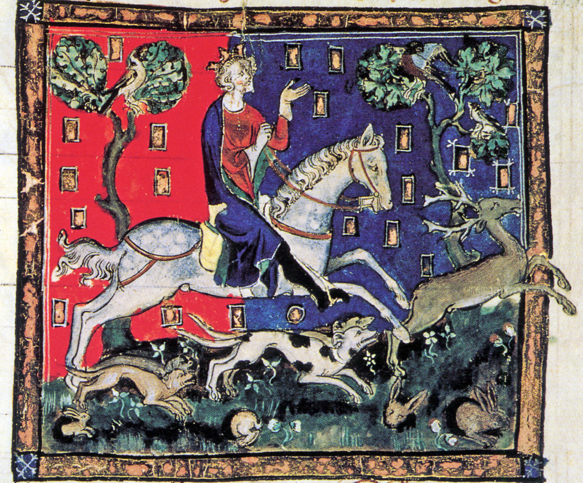 This image is a JPEG version of the original PNG image at File: King John from De Rege Johanne.png. Generally, this JPEG version should be used when displaying the file from Commons, in order to reduce the file size of thumbnail images. However, any edits to the image should be based on the original PNG version in order to prevent generation loss, and both versions should be updated. Do not make edits based on this version. See here for more information. King John of England, 1167-1216. Illuminated manuscript, De Rege Johanne, 1300-1400. MS Cott. Claud DII, folio 116, British Library.